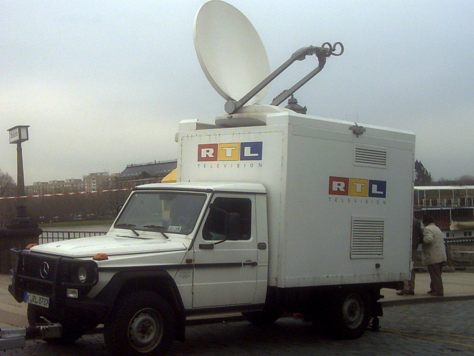 Transmission car of the German TV station "RTL Television" in Dresden/Germany.